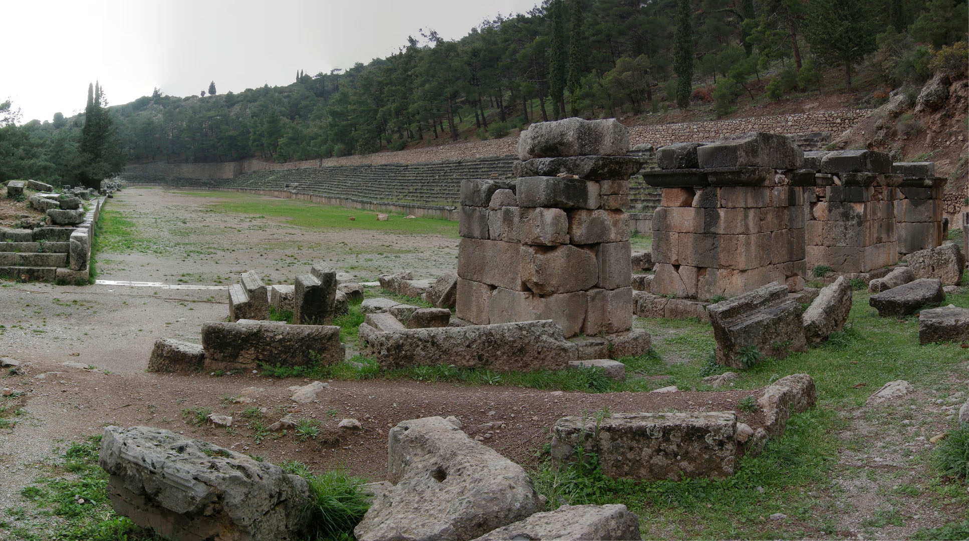 The ancient stadium at Delphi, Greece